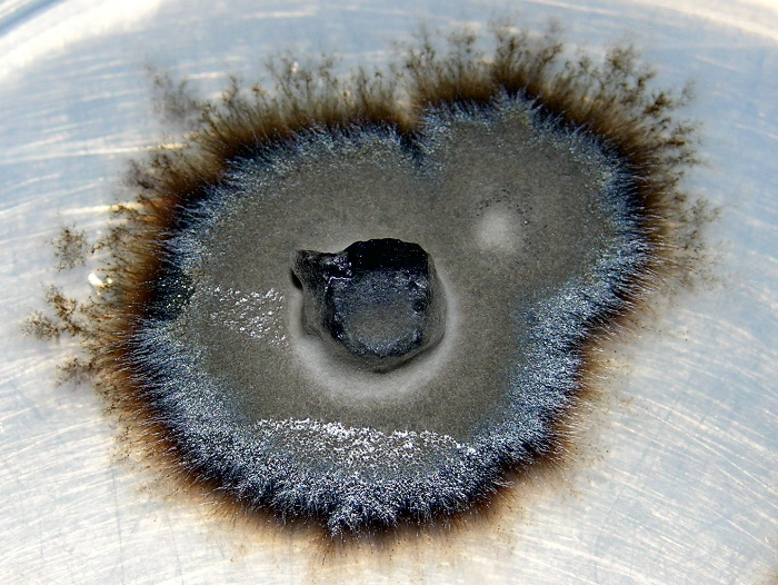 own fungus, own photo. Photo: Dr. David Midgley. An ericoid mycorrhizal fungus isolated from Woollsia pungens by David Midgley. (Taxon VI, see Midgley, Chambers and Cairney (2002) for details reference below). Midgley, D. J., Chambers, S. M. & Cairney, J. W. G. (2002). Spatial distribution of fungal endophyte genotypes in a Woollsia pungens (Ericaceae) root system. Australian Journal of Botany 50, 559-565.